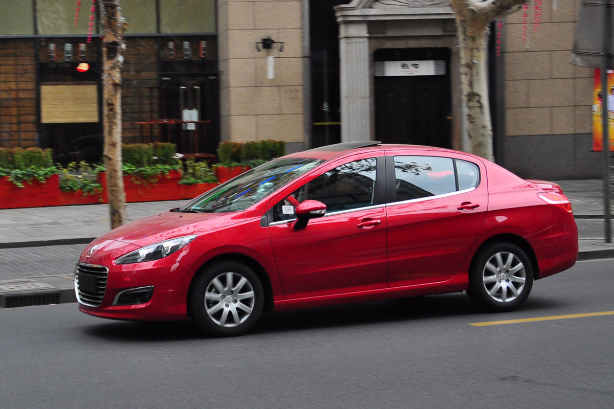 Peugeot 308 Sedan China